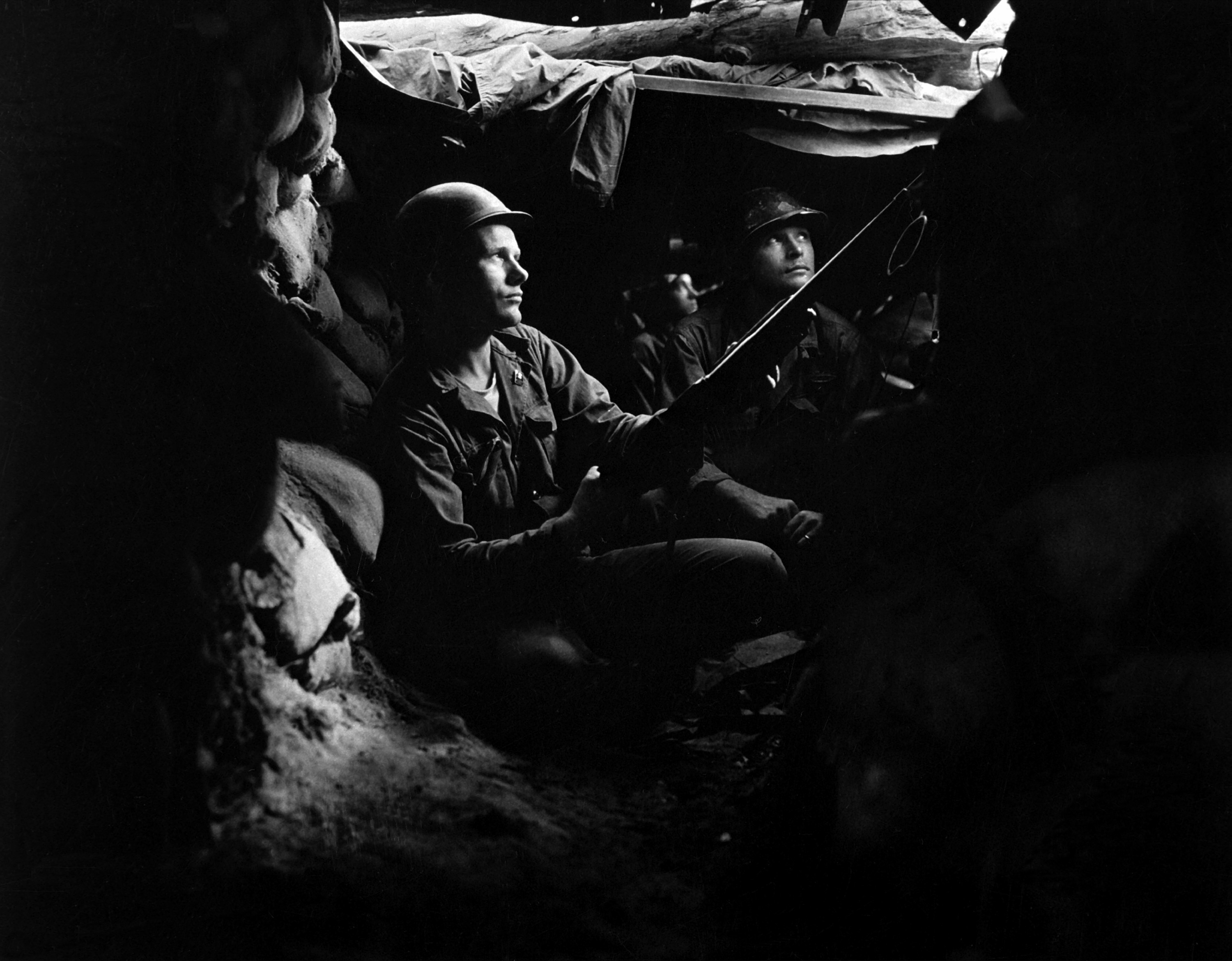 Infantrymen of the 27th Infantry Regiment, near Heartbreak Ridge, take advantage of cover and concealment in tunnel positions, 40 yards from the Communists. August 10, 1952. Feldman. (Army) NARA FILE #: 111-SC-410716 WAR & CONFLICT BOOK #: 1427